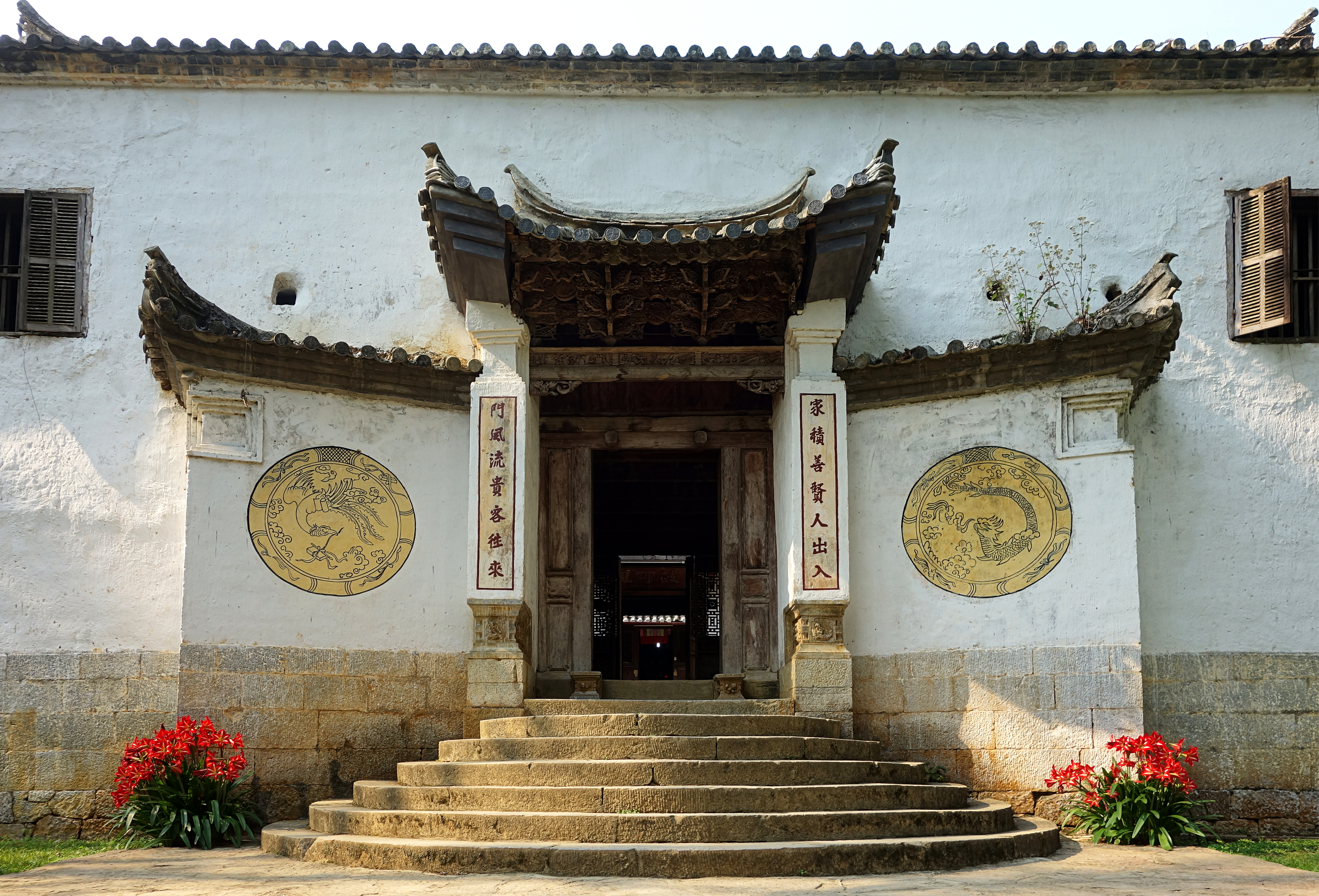 Entrance gate to the Hmong Palace of Sa Phin.